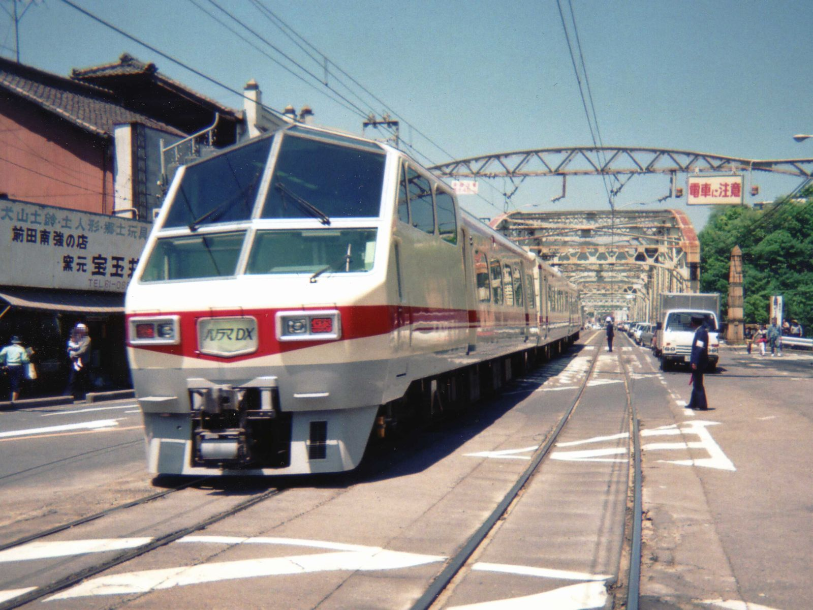 Nagoya Railroad EMU type 8800 "Panorama DX"